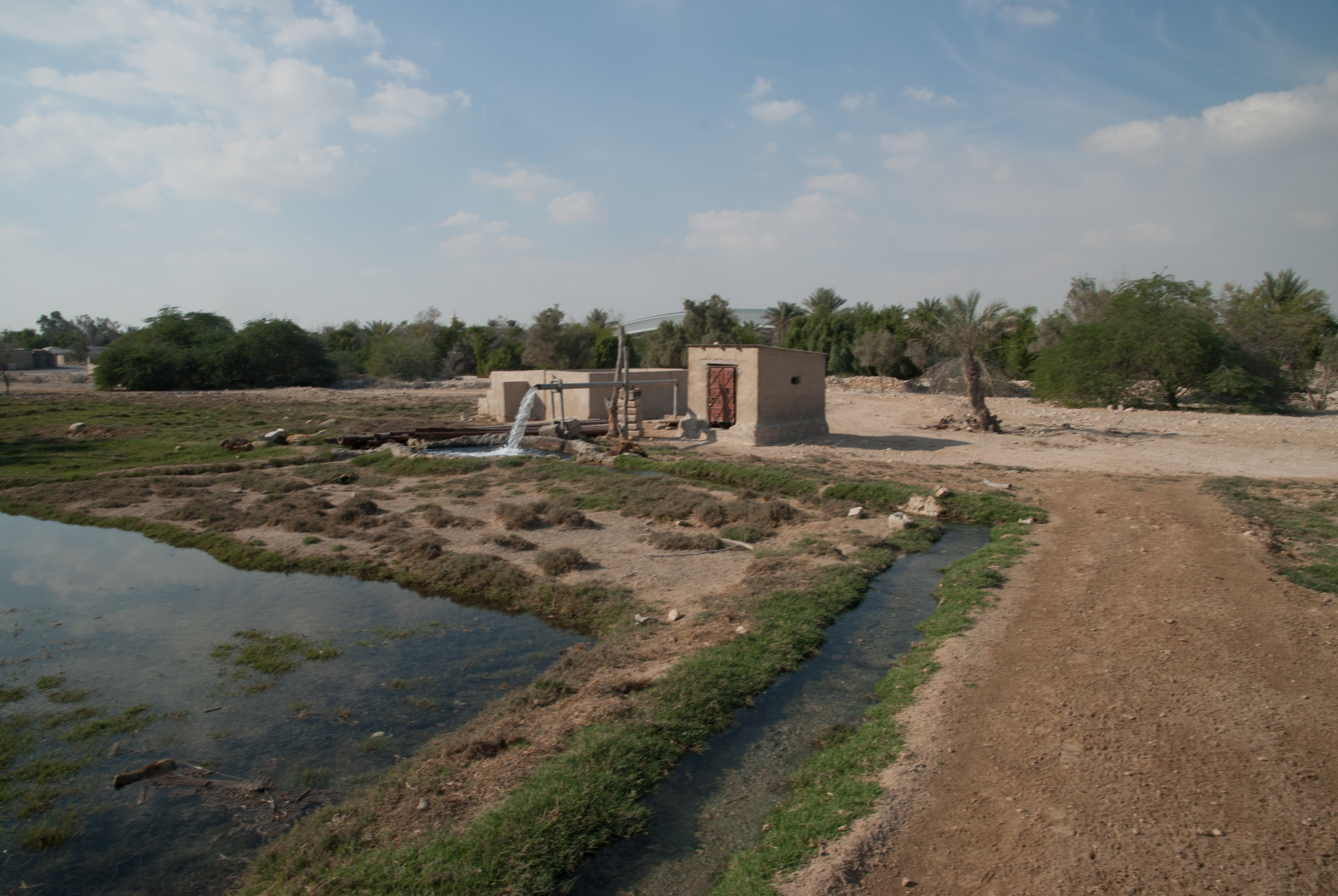 Agriculture near Al Rayyan.